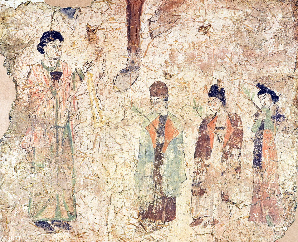 Nestorian Temple - Palm Sunday (probably), Khocho, Sinkiang, 683-770 AD. Located in Berlin.